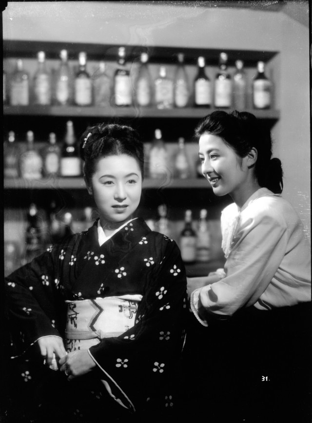 Kinuyo Tanaka and Kyōko Kagawa in Ginza keshō (銀座化粧) directed by Mikio Naruse - 1951